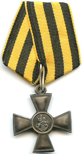 Imperial Russia, Cross of St George 3rd class